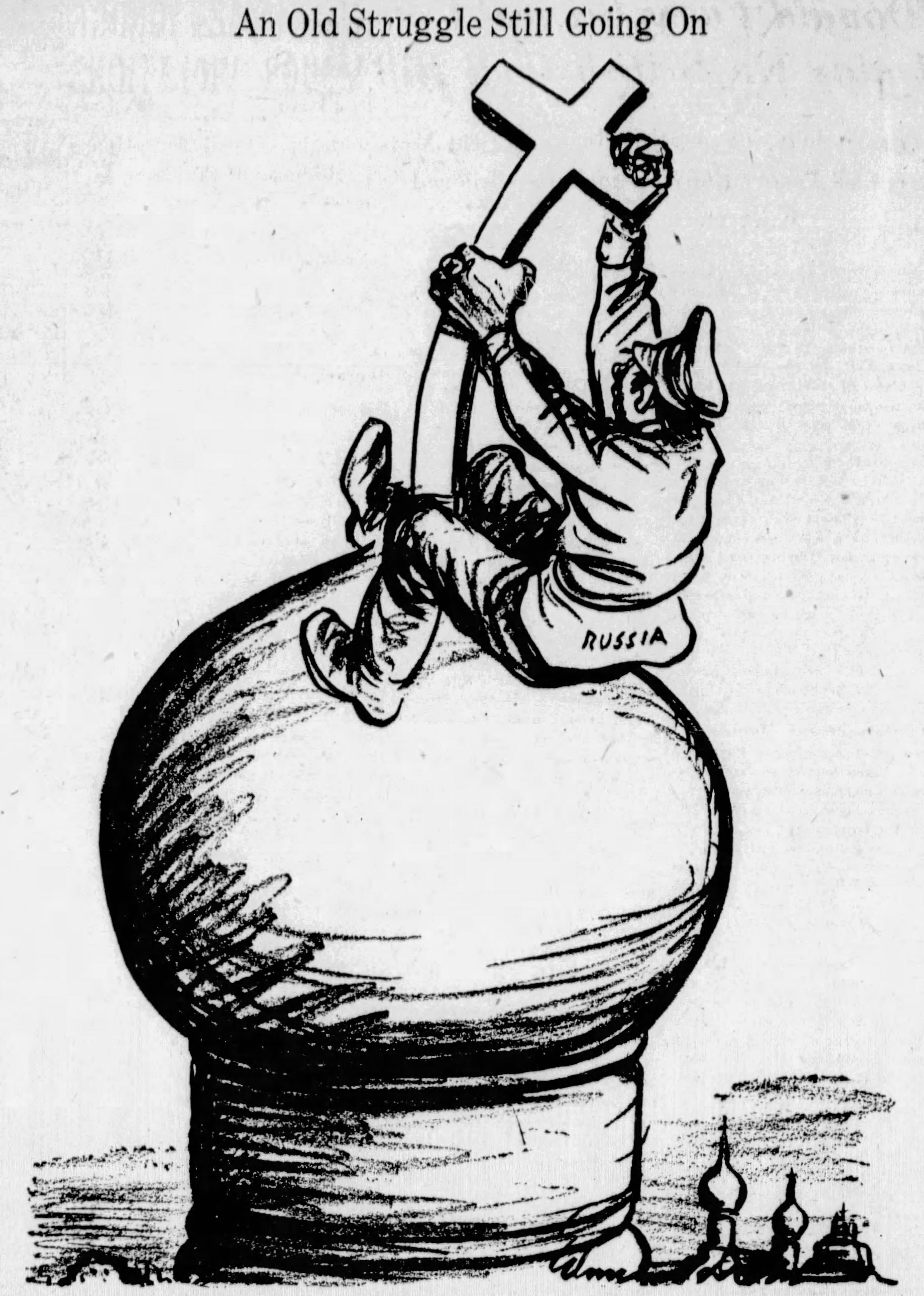 "An Old Struggle Still Going On", an editorial cartoon commenting on government suppression of religion in the Soviet Union. Winner of the 1931 Pulitzer Prize for Editorial Cartooning.